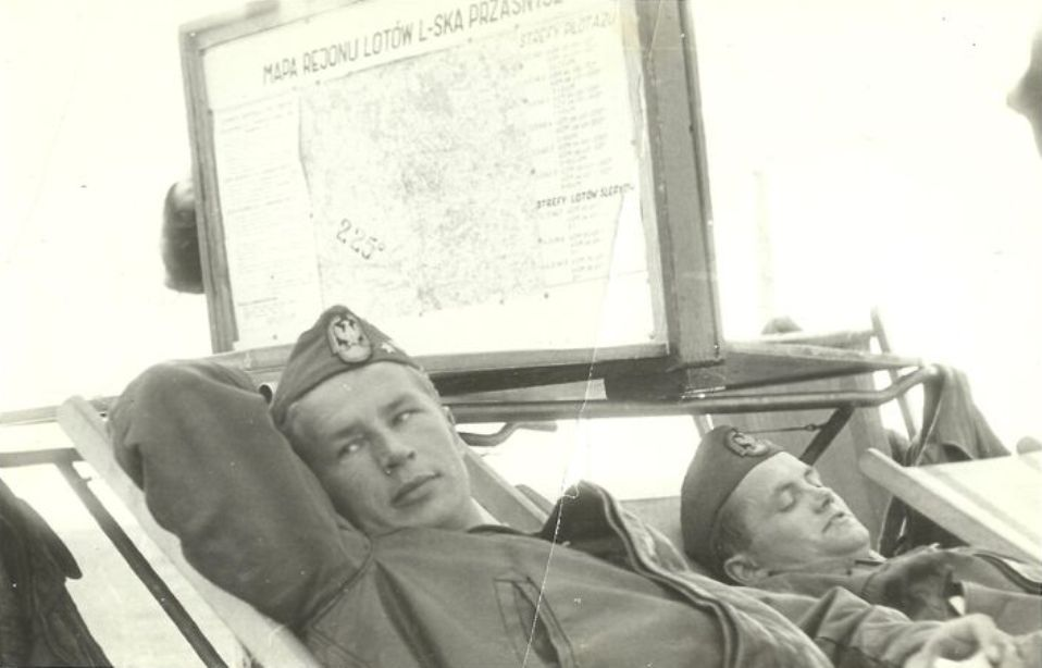 Oficerowie słuchacze na lotnisku 64.LPS, 1960